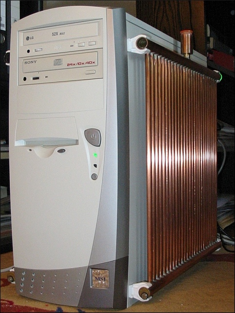 A watercooled computer. Good to see: The DIY-heat exchanger on the right side